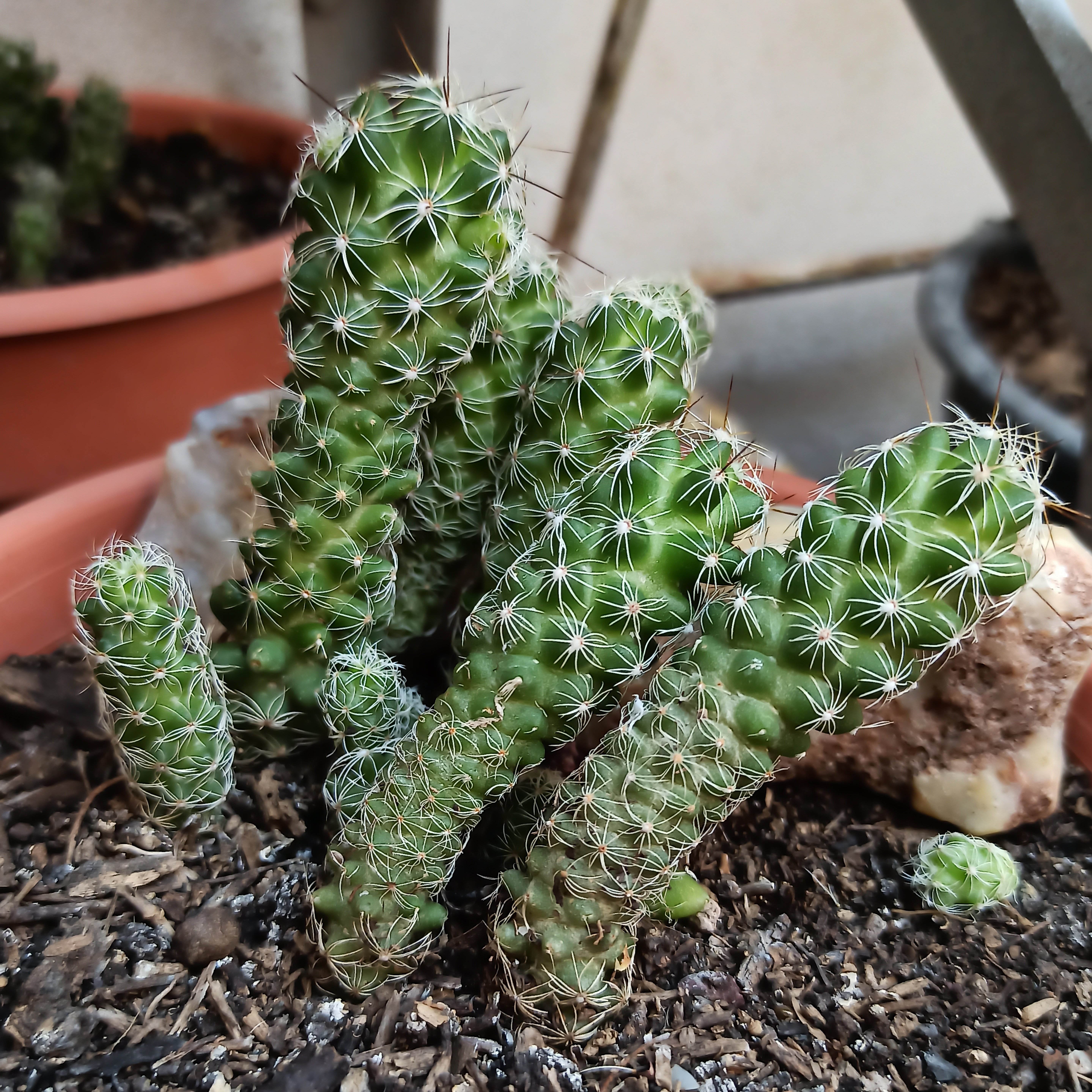 Mammillaria vetula ssp. gracilis